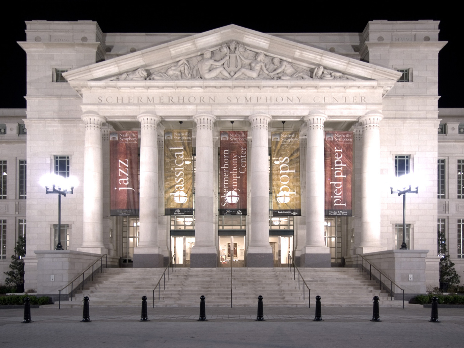 Photo of the Schermerhorn Symphony Center's main entrance in Nashville, Tennessee